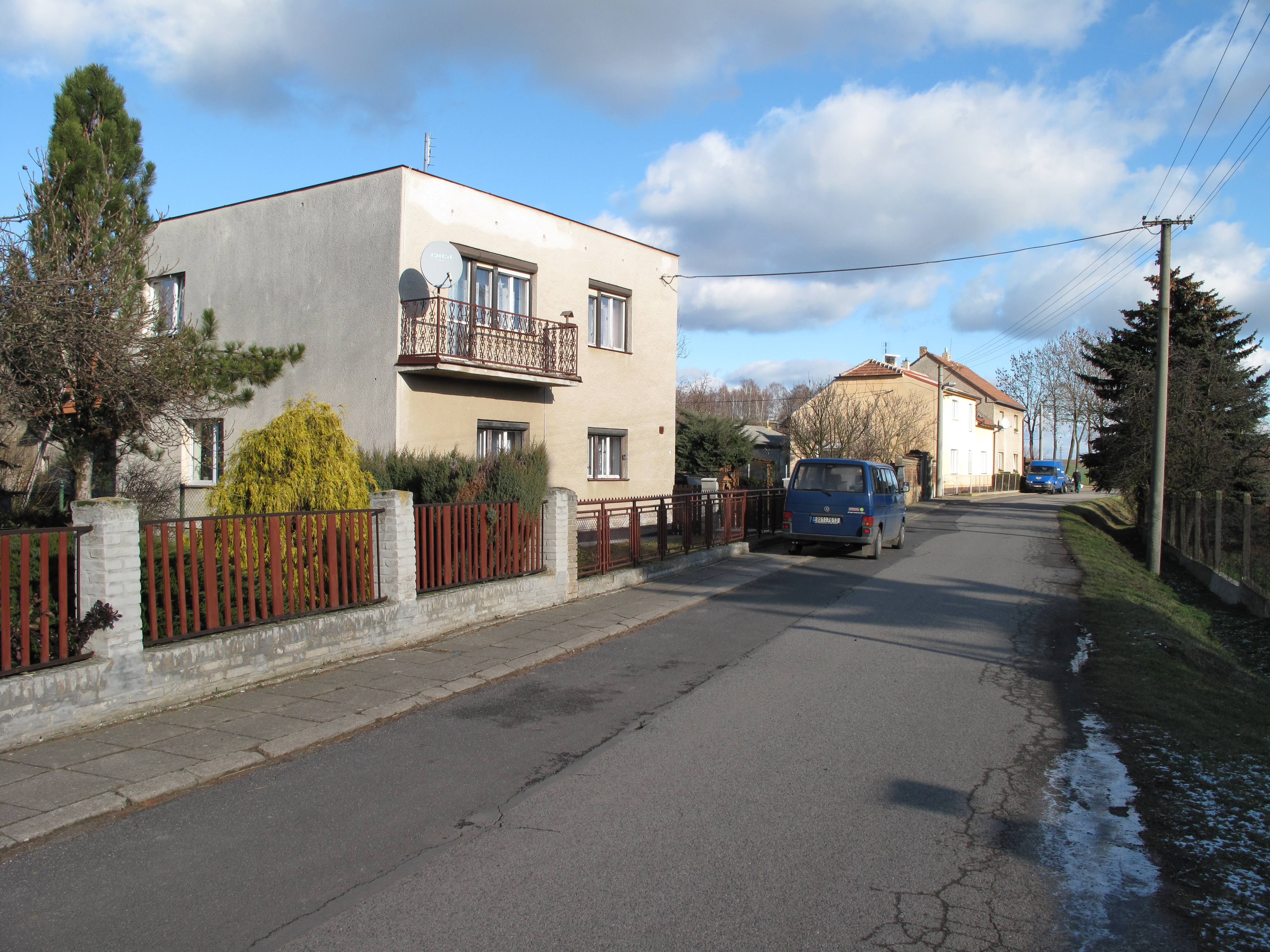 Street with houses in Libovice village, Kladno District, Czech Republic.